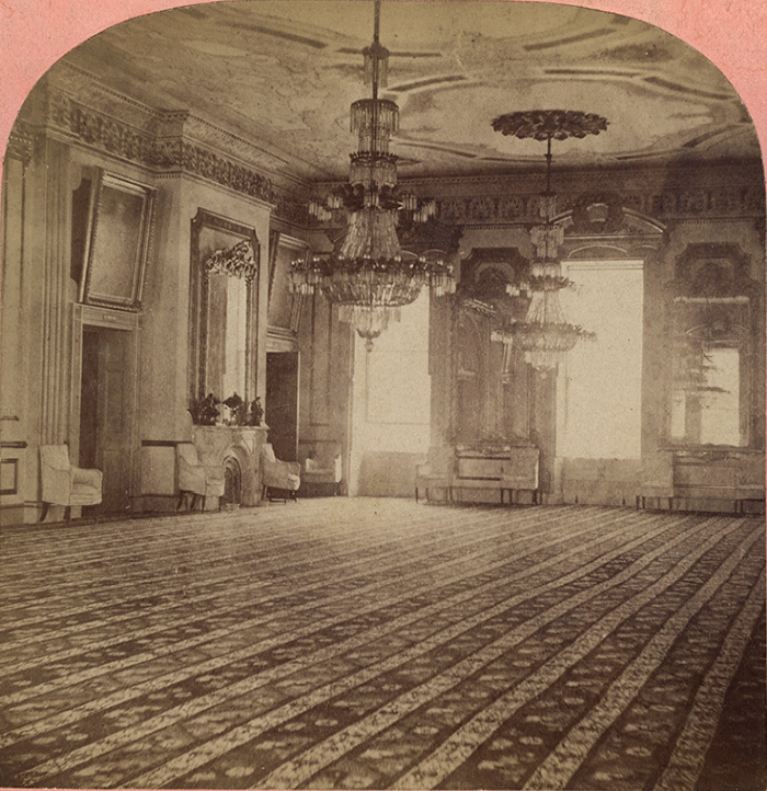 Stereograph view of the East Room at the White House during the administration of Andrew Johnson.